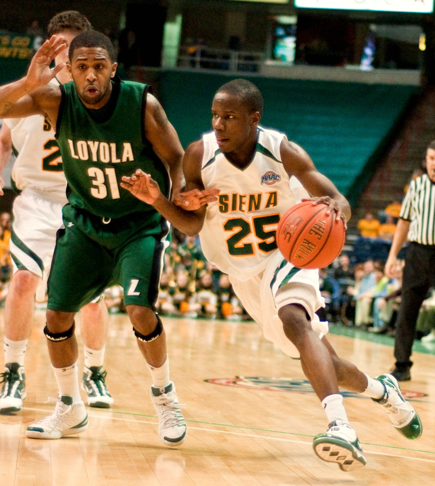 Ronald Moore (class of 2010), guard for the Siena Saints men's basketball team,[1] dribbles toward the basket during a game against Loyola at the Times Union Center. The Saints ended up winning the game 67-61; it was the team's 32nd straight win on its home court.[2] ↑ 2009-2010 Siena Saints Yearbook. Siena College (2010). Retrieved on 2010-06-22. ↑ McGuire, Mark (2010-01-22). "Streaking Siena". Times Union (Albany) (Hearst Newspapers): p. B1. Retrieved 2010-06-22.